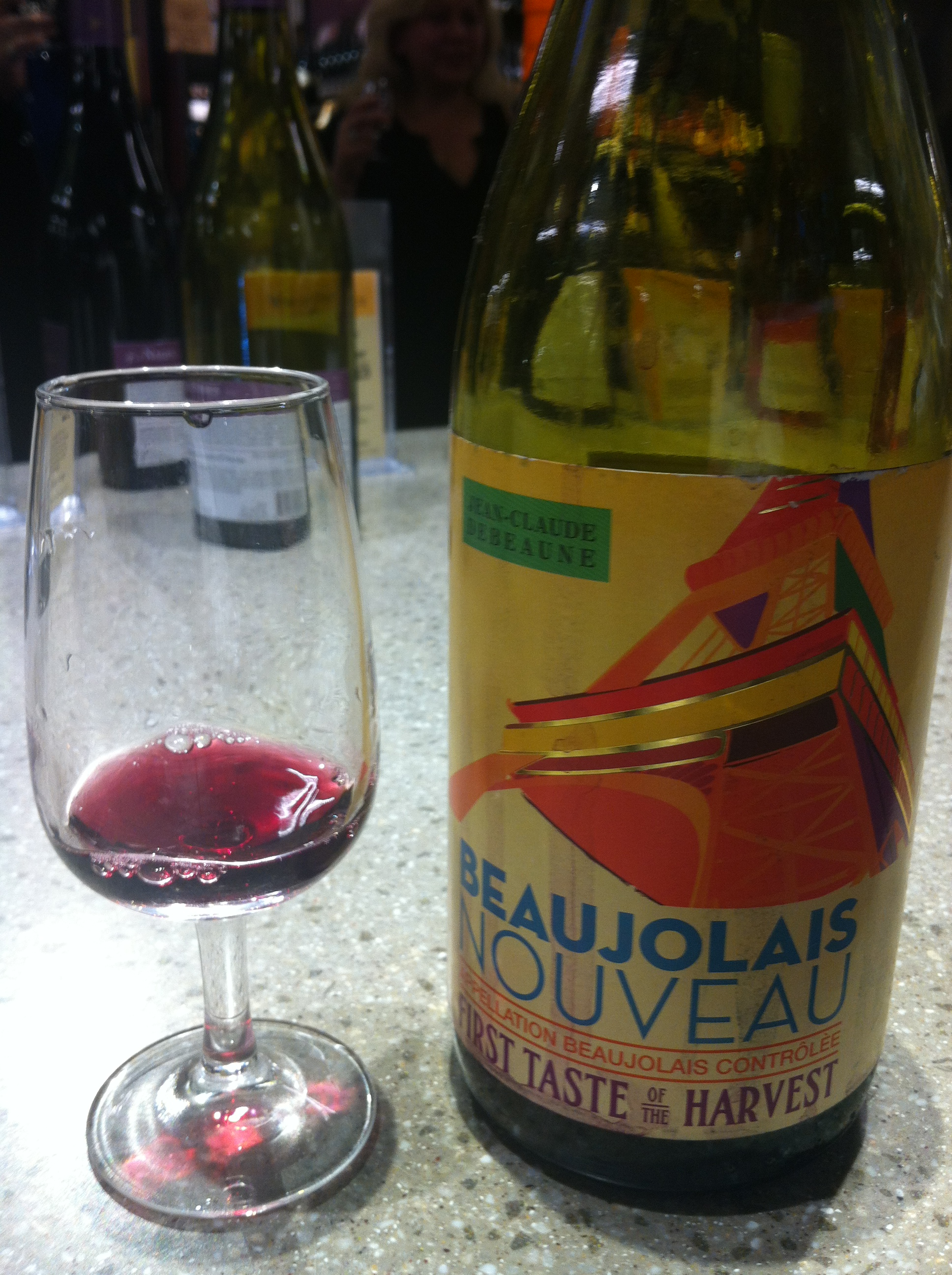 French red wine made from the gamay grape using carbonic maceration